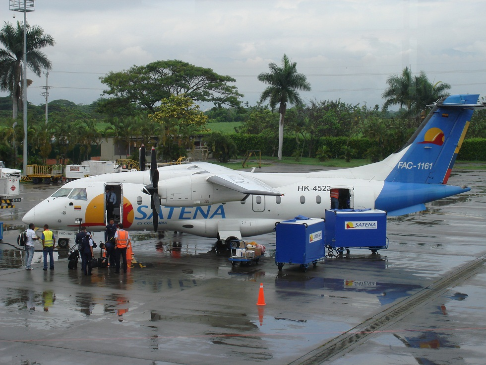 Dornier D328 en el aeropuerto Alfonso Bonilla Aragon